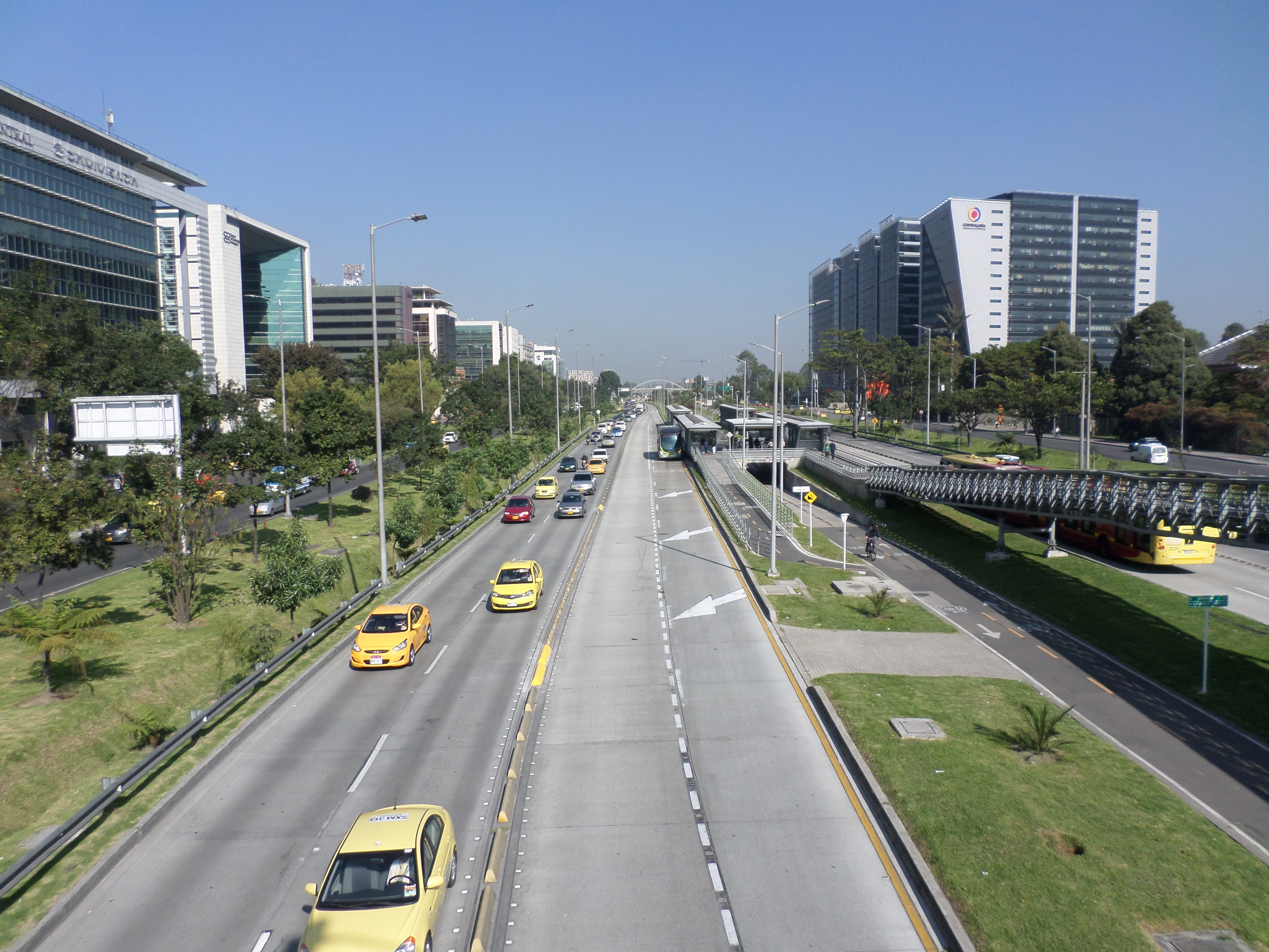 Avenida Calle 26 (Calle 26)